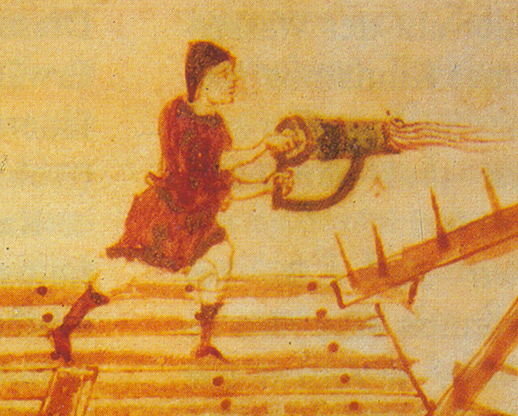 Use of a hand-siphon, a portable flame-thrower, from a siege tower. Detail from the medieval manuscript Codex Vaticanus Graecus 1605.